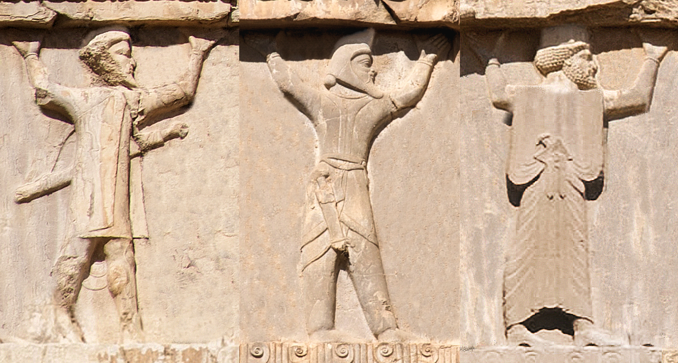 Yavanas Sakas Parasikas on the Tomb of Xerxes I circa 480 BCE